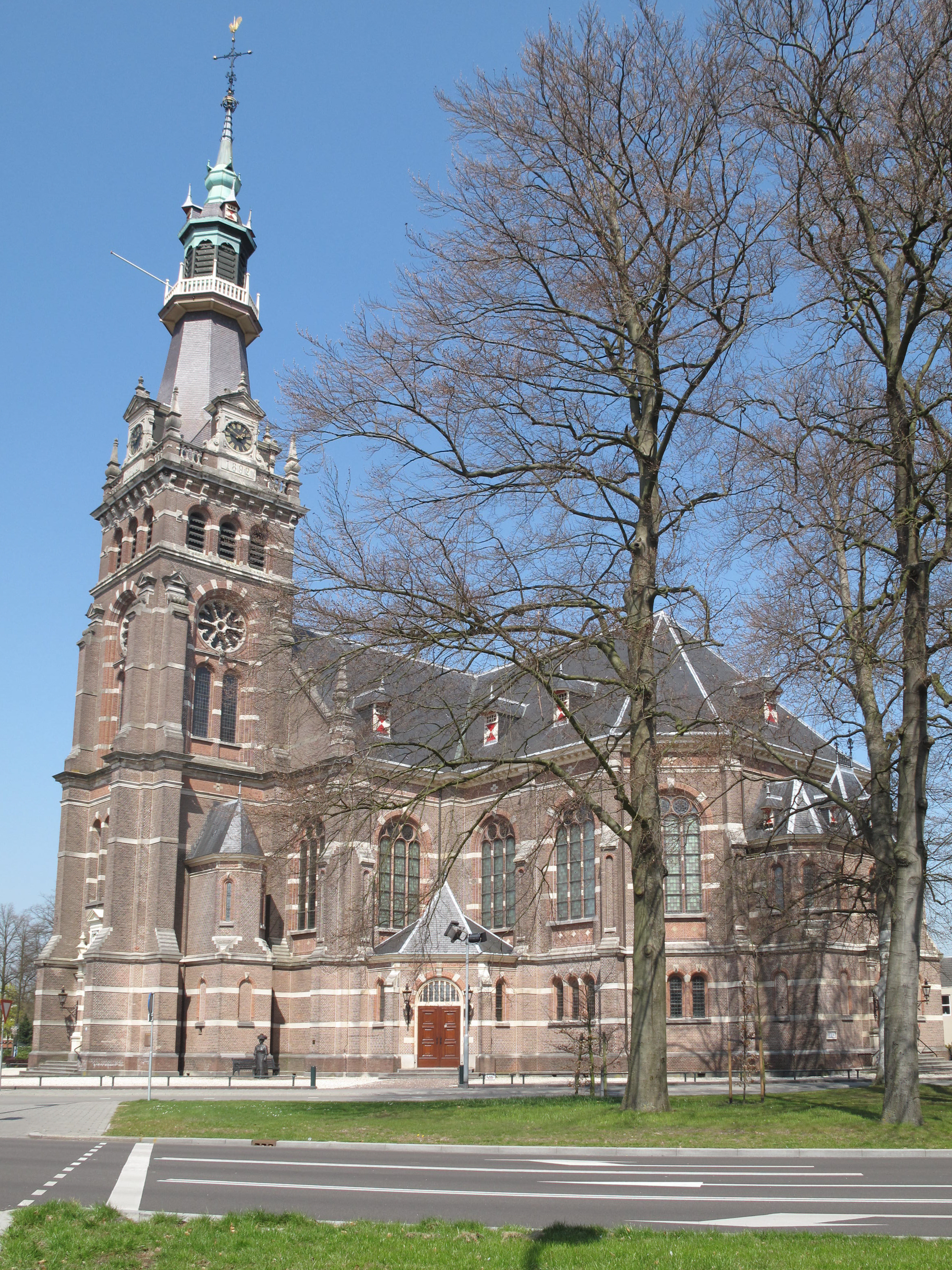 Apeldoorn, church: Grote Kerk